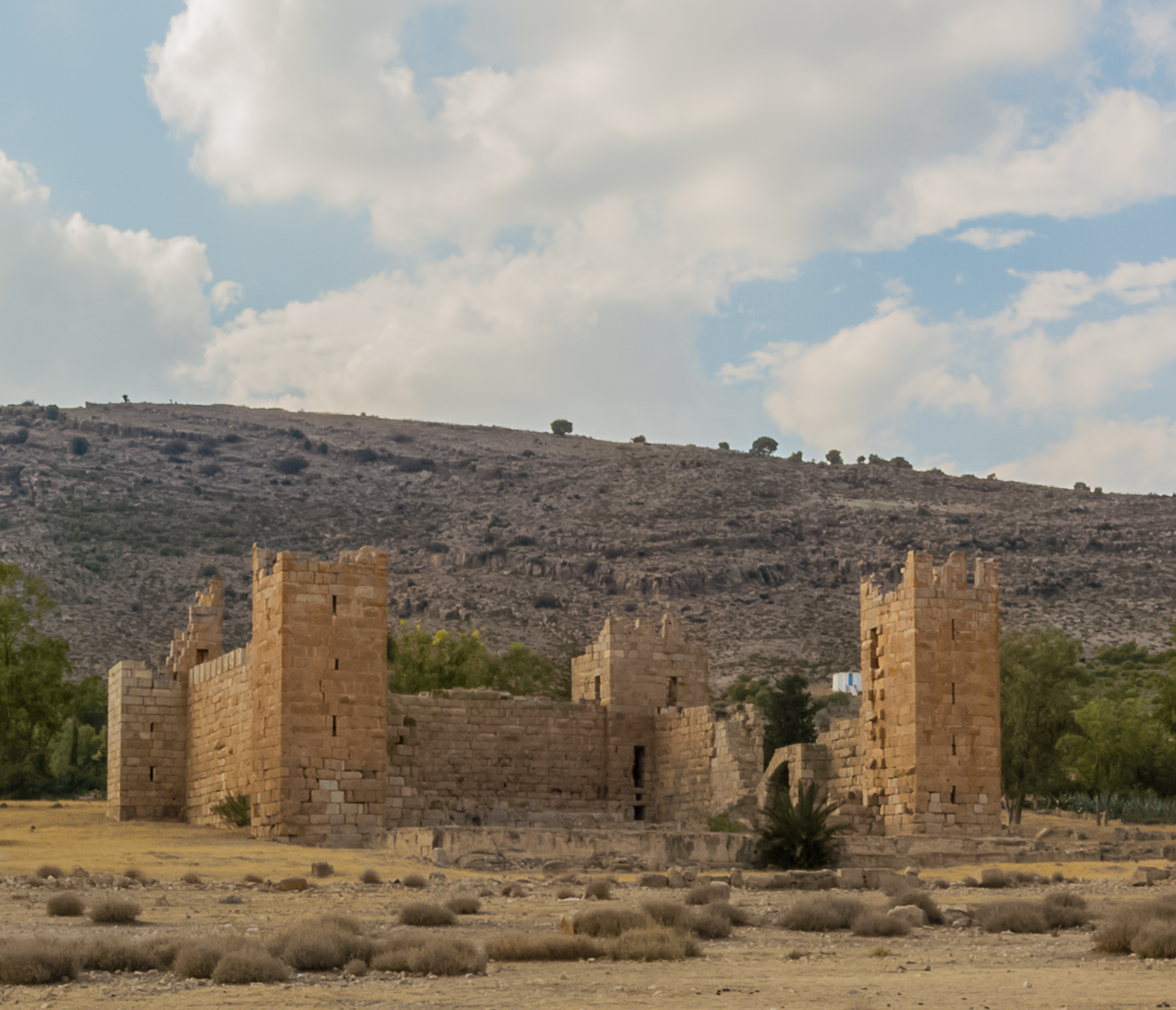 Outside view of the byzantine forteress of Ksar Lemsa